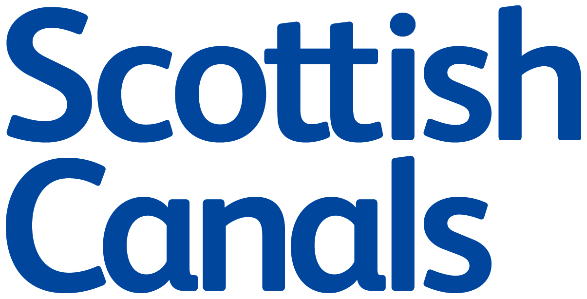 The logo for Scottish Canals, the department of the Scottish Government responsible for the waterways of Scotland. Created following their separation from British Waterways